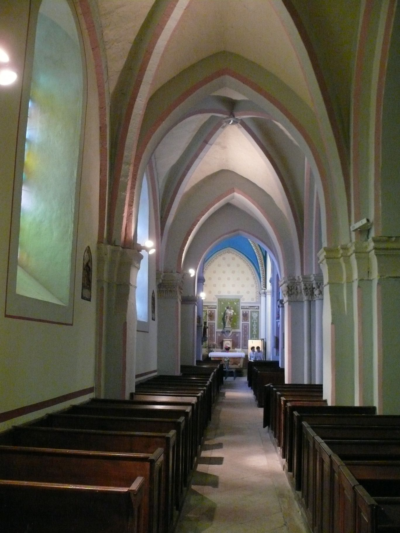 Saint-Peter's church in Nanteuil-le-Haudouin (Oise, Picardie, France).